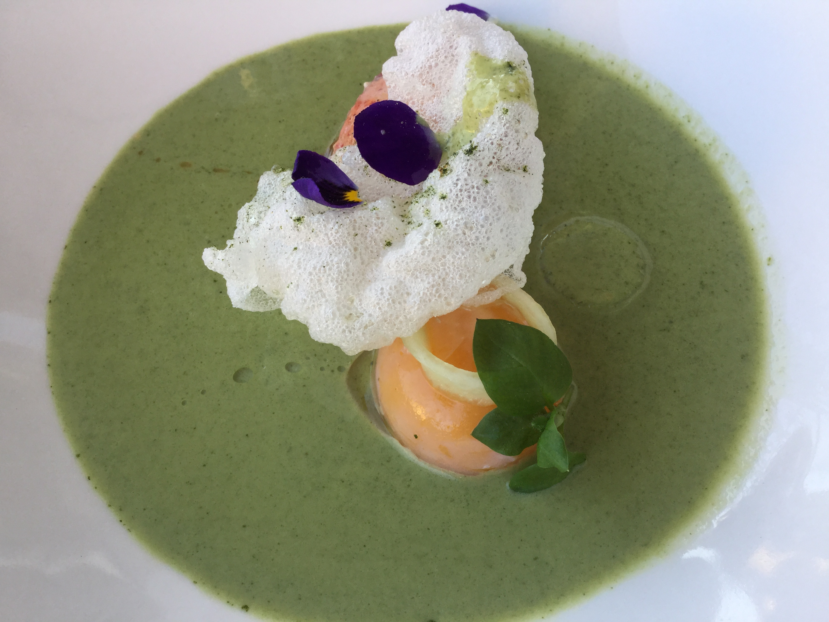 Nässelsoppa med hummer och pocherad äggula på Vimmerby stadshotell, maj 2017